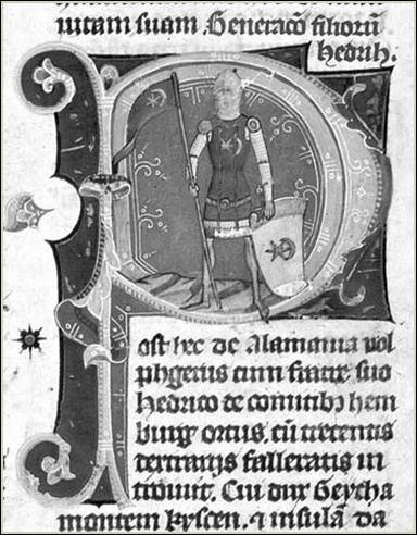 Hedrich from the Chronicon Pictum